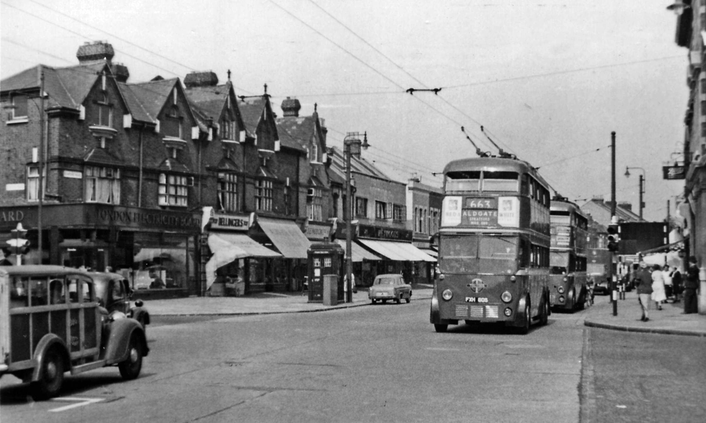 Romford Road at Manor Park, Ilford. View NE, towards Ilford, probably at corner of Station Road (left). A typical suburban scene, with two westbound trolley-buses, the front one being on Route 663 (Ilford Broadway - Aldgate).